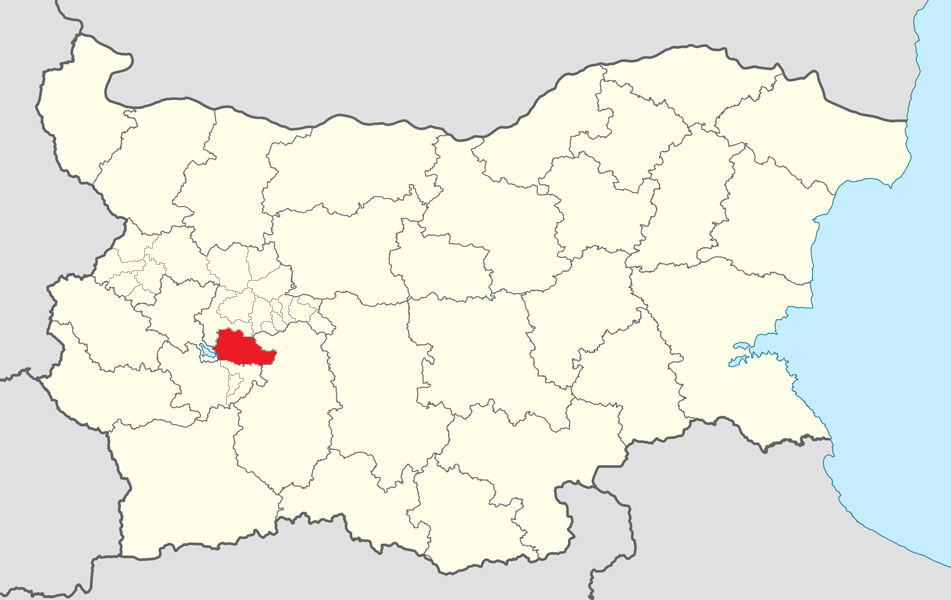 Location map of Ihtiman Municipality within Bulgaria and Sofia province